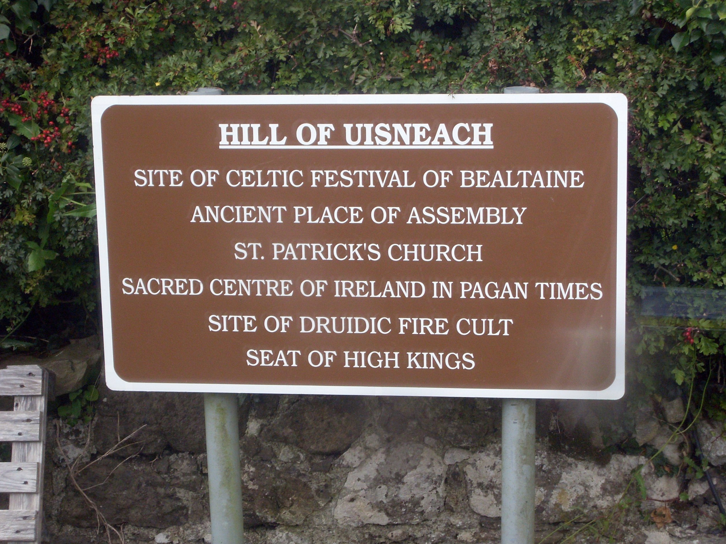 a signboard at Hill of Uisneach